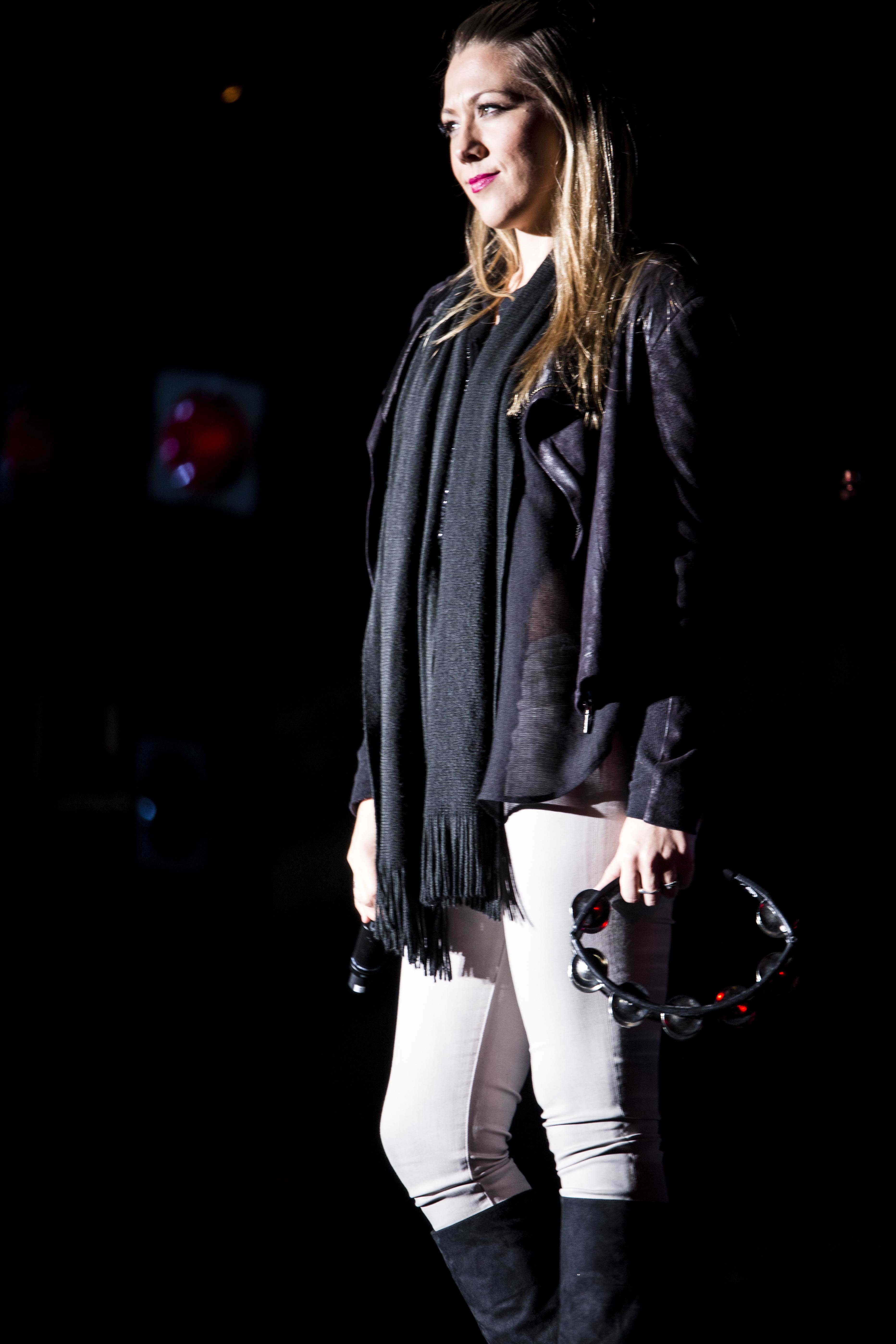 Colbie Caillat observes the audience during her performance at the 21st Annual Camp Courtney Christmas and Holiday Festival hosted by Marine Corps Community, Dec. 7 at Camp Courtney. The festival incorporated a variety of games, carnival rides and food. There were performances by popular artists such as Montgomery and Colbie Caillat, local musicians such as the Ninu-fa Daiko and Ti-da Daiko, two performers dressed as lion mascots, and “ouka” – taiko drum performers. The event was open to the public and all service members, fostering an opportunity for the community to come together and enjoy the holidays. (U.S. Marine Photo by Cpl. Henry J. Antenor)